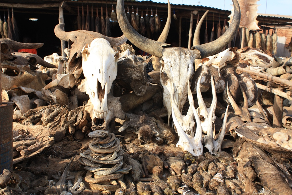 The Akodessawa Fetish Market in Lomé, Togo, West Africa is one of the biggest markets for voodoo paraphernalia.